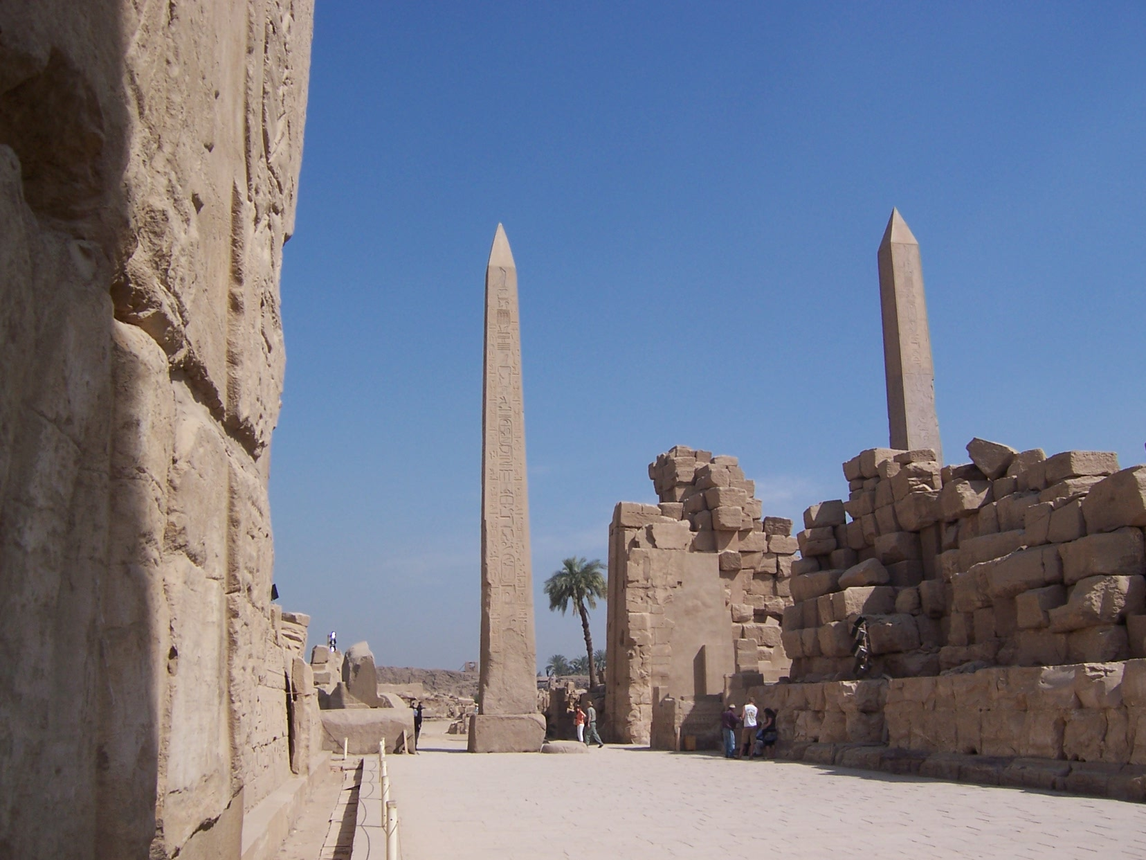 Karnak Temple Complex at Luxor, Egypt